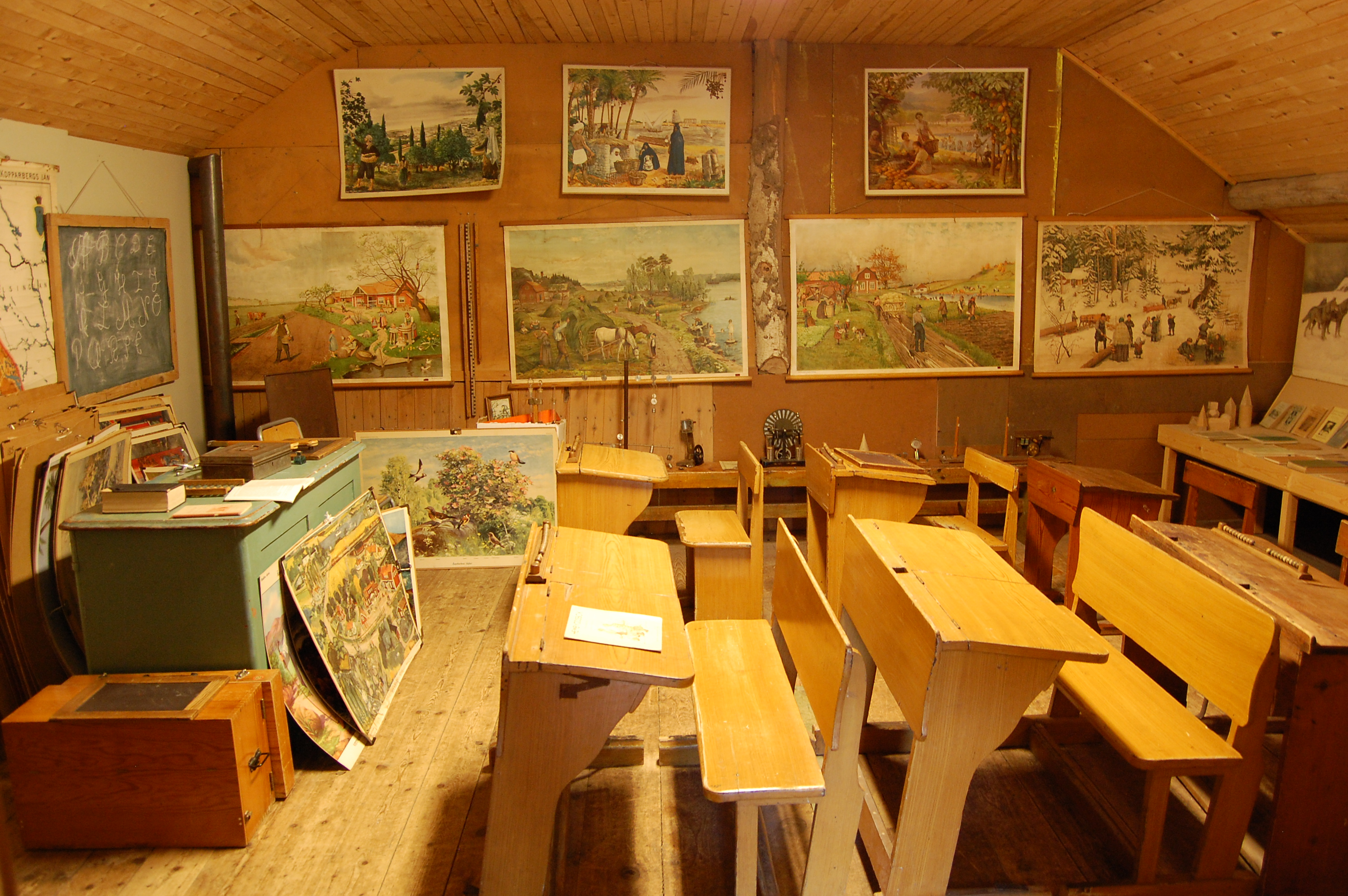 School Museum in the Old Stabeg